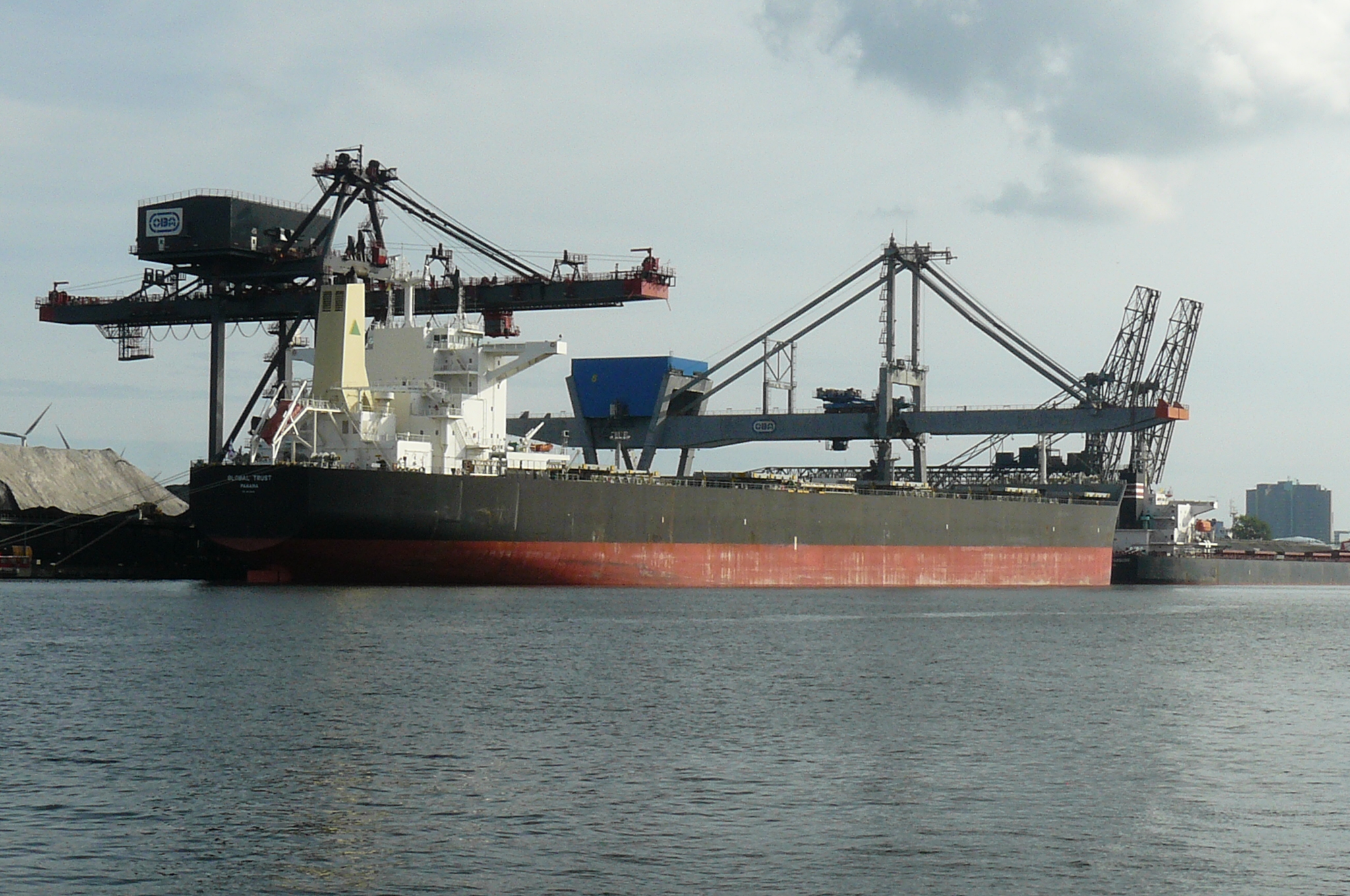 Bulkcarrier Global Trust (Panama) in off-loading coal at the OBA Terminal in the Westhaven of Amsterdam